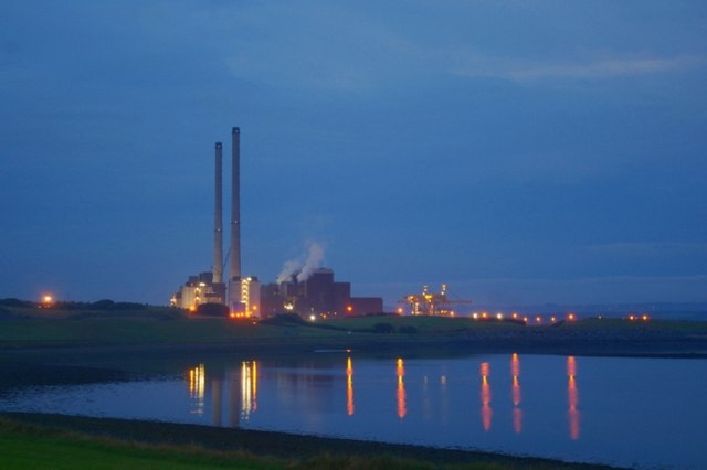 Moneypoint Power Station - nocturne in blue and gold The coal-fired plant on the Shannon estuary at Moneypoint is Ireland's largest generating facility, supplying some 40% of the country's demand for electricity.